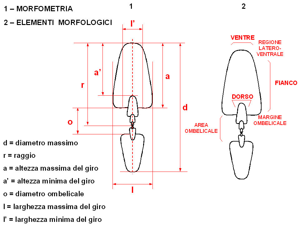 scheme of ammonite shell morphology (axial section).